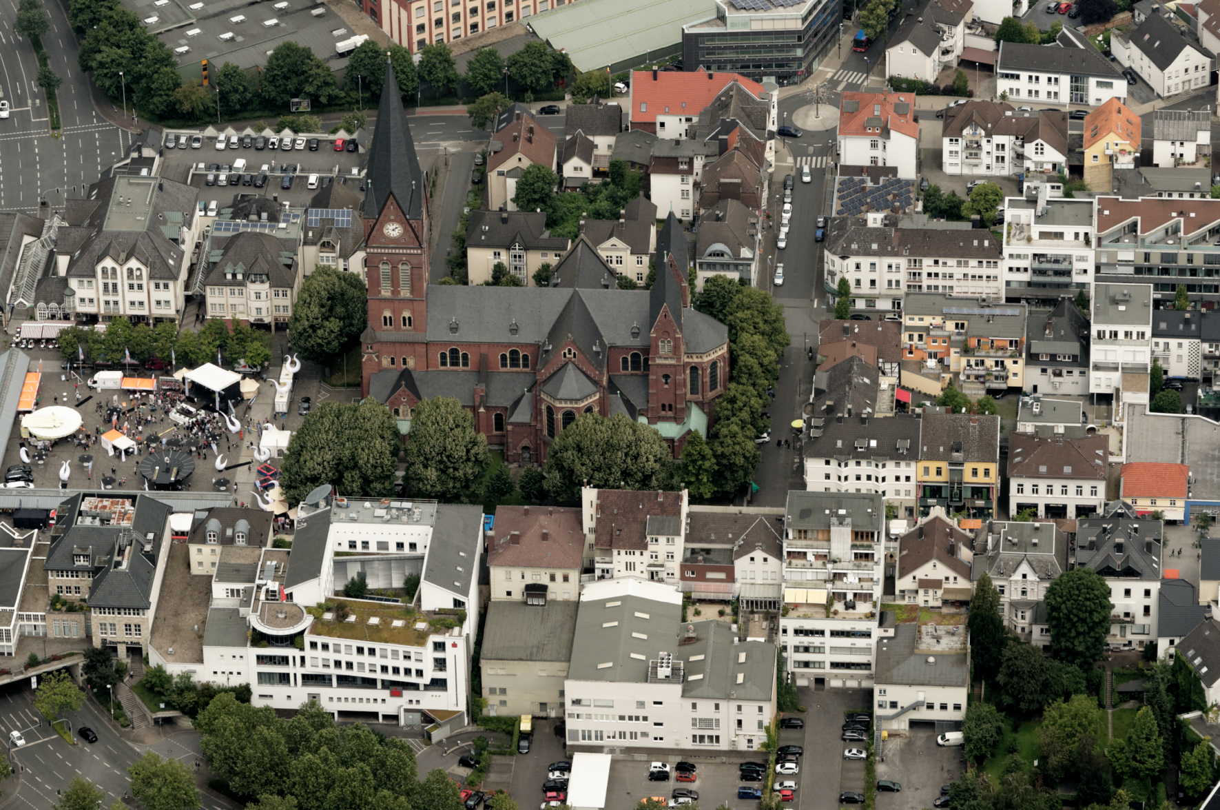 Arnsberg-Neheim: Neheimer Markt mit St. Johannes-Baptist (Fotoflug Sauerland Nord) The making of this document was supported by the Community-Budget of Wikimedia Germany.